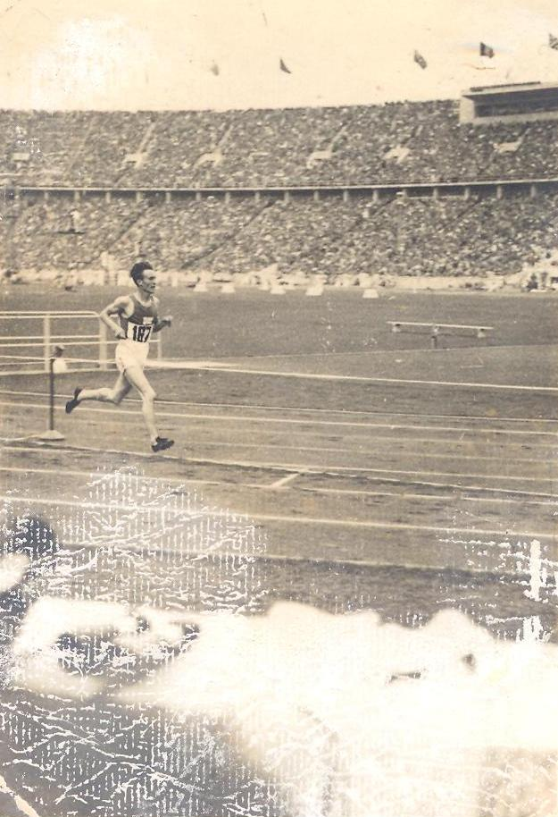 Finnish athlete Volmari Iso-Hollo, 3000 m steeplechase, 1936 Summer Olympics in Berlin.